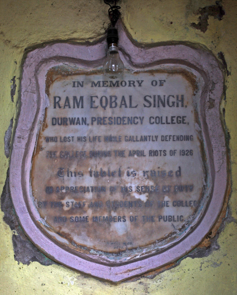 Memorial Plaque of Ram Eqbal Singh, durwn of Presidency College (now Presidency University), Kolkata